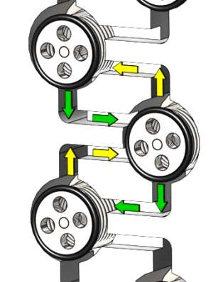 Counter current extractor